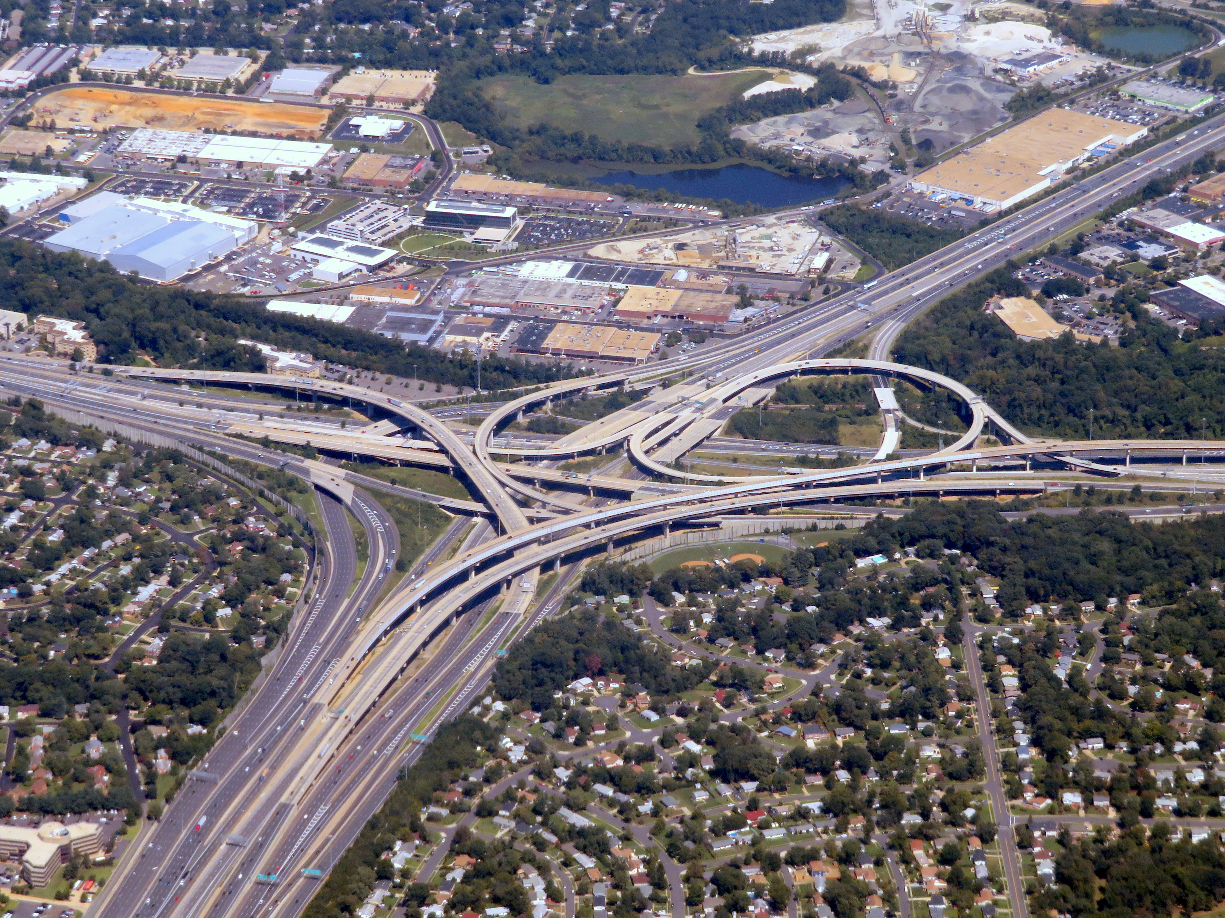 Aerial view of the Springfield Interchange in September 2018